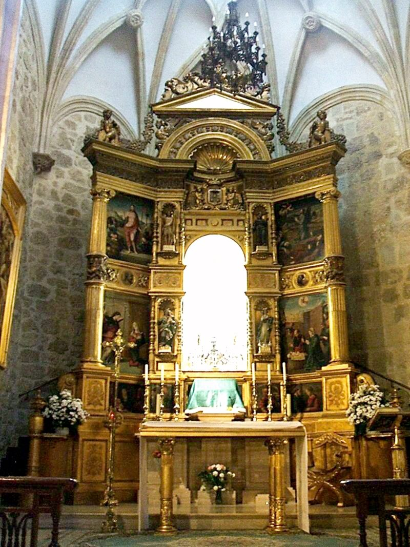 Retablo mayor de la Catedral de Albacete (Castilla-La Mancha, España)